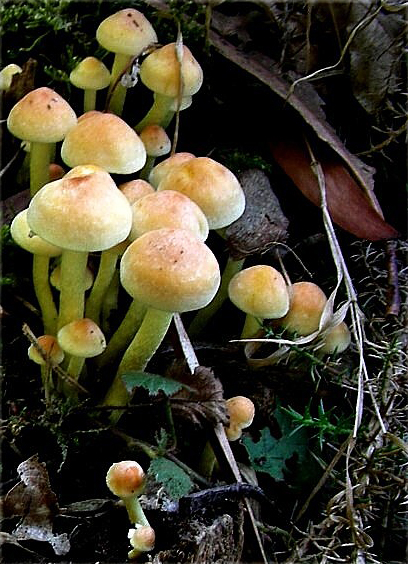 Hypholomas en Galicia (Spain)